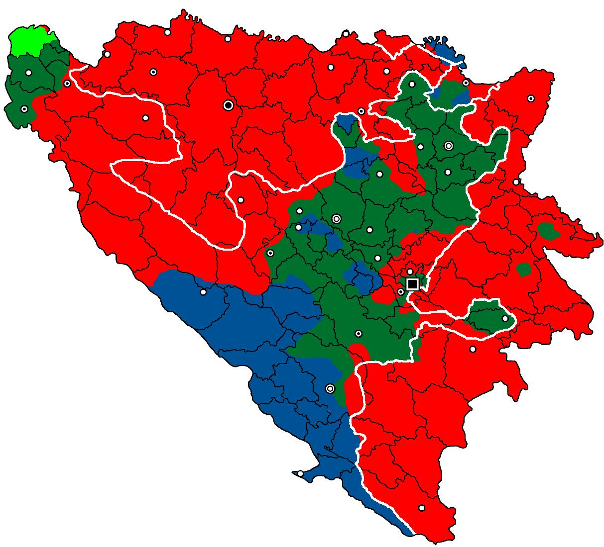 The front lines in 1994, at the end of the Bosniak-Croat war and after the signing of the Washington Agreement. HVO blue, A BiH green, Serbs red